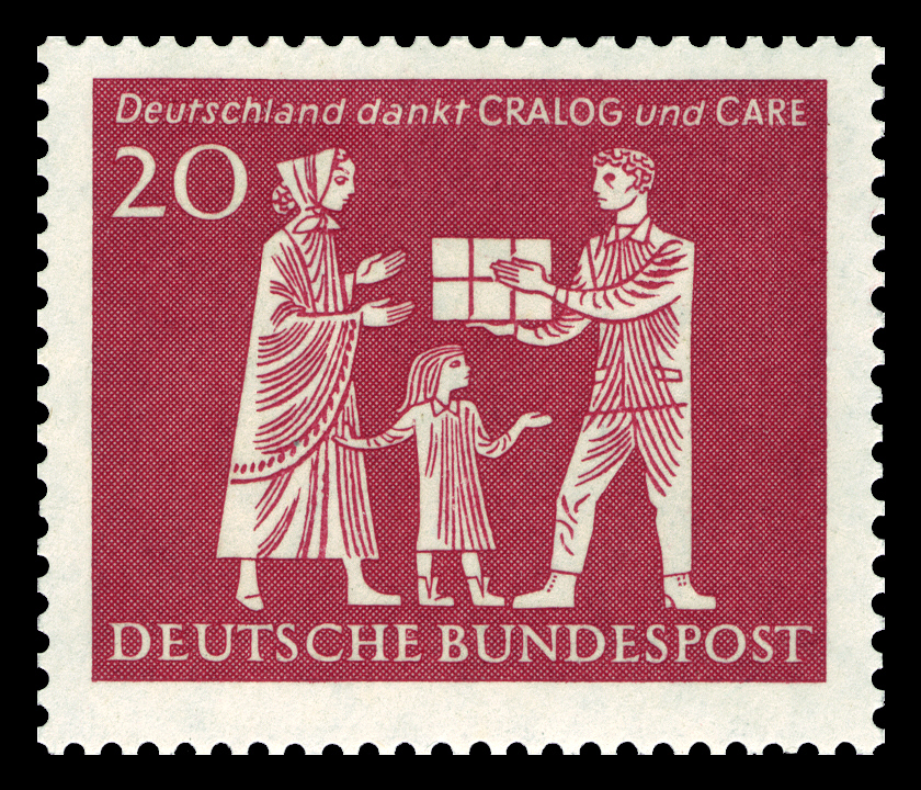 social help by Cralog and Care Graphics by Ege Ausgabepreis: 20 Pfennig First Day of Issue / Erstausgabetag: 9. Februar 1963 Michel-Katalog-Nr.: 390